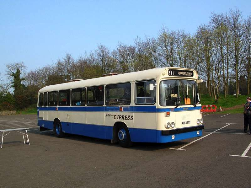 Ulsterbus Leyland Leopard 235.